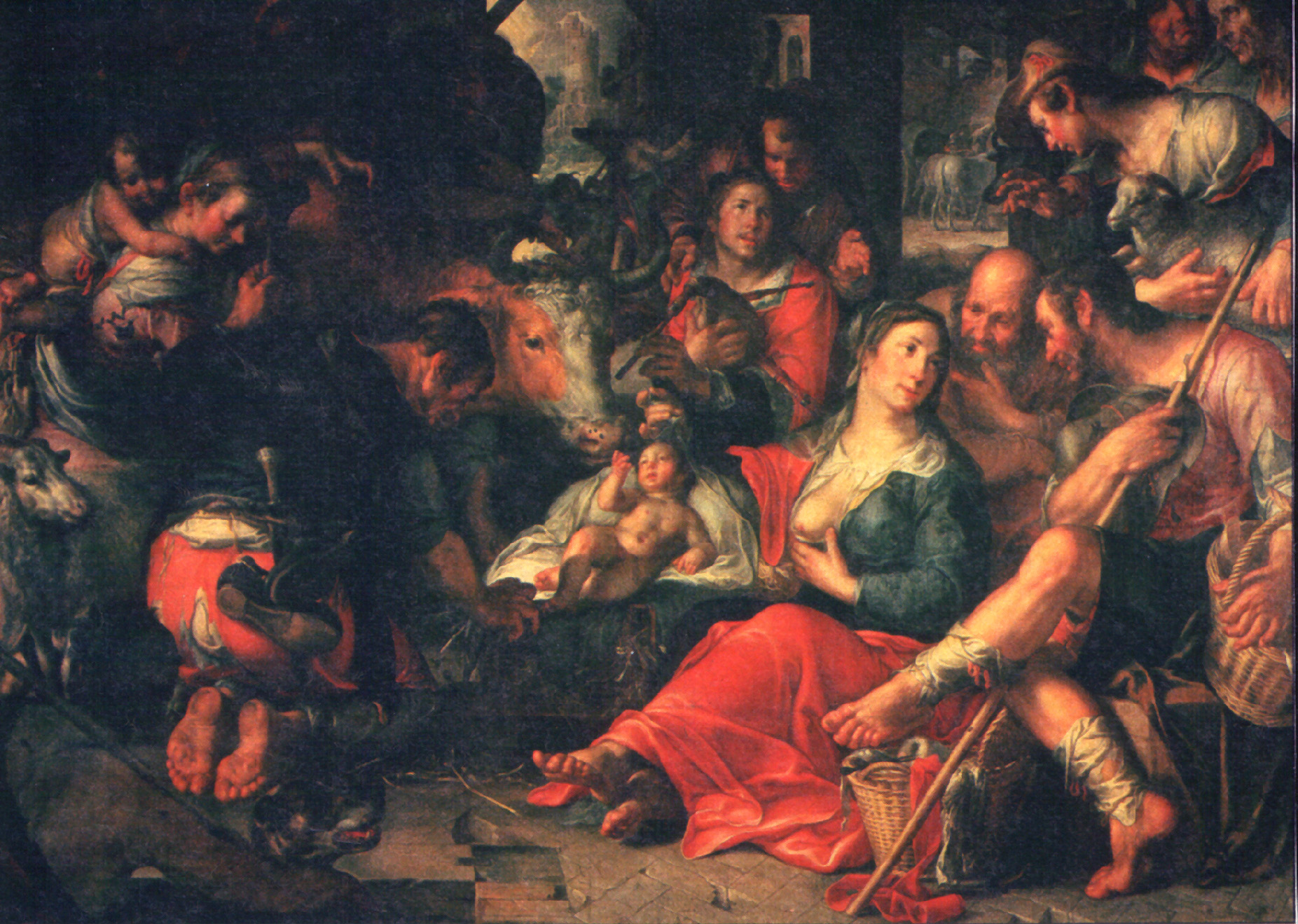 The Adoration of the Shepherds